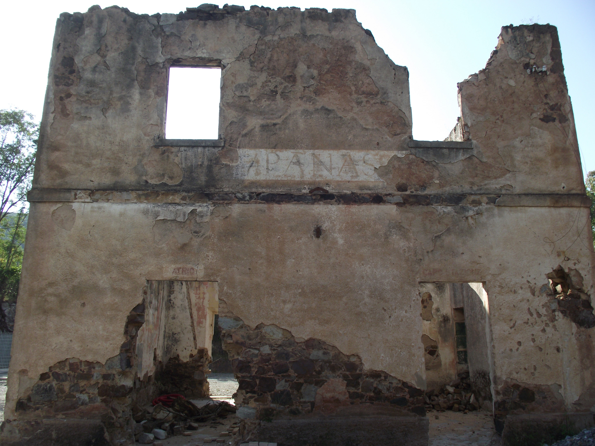 The ruins of the passenger building of the former train station of Campanasissa, along the former railway Siliqua-San Giovanni Suergiu-Calasetta in Sardinia, Italy, closed in 1968.